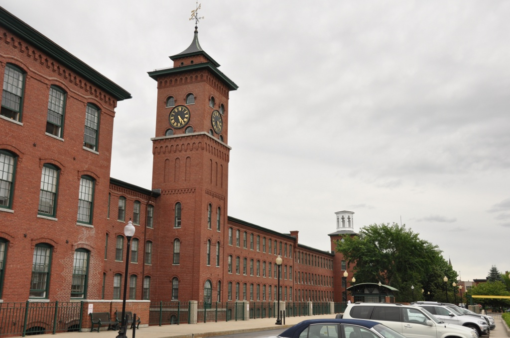 A photograph of Clocktower Place, a renovated mill that is in the Nashua Manufacturing Company Historic District in Nashua, New Hampshire.